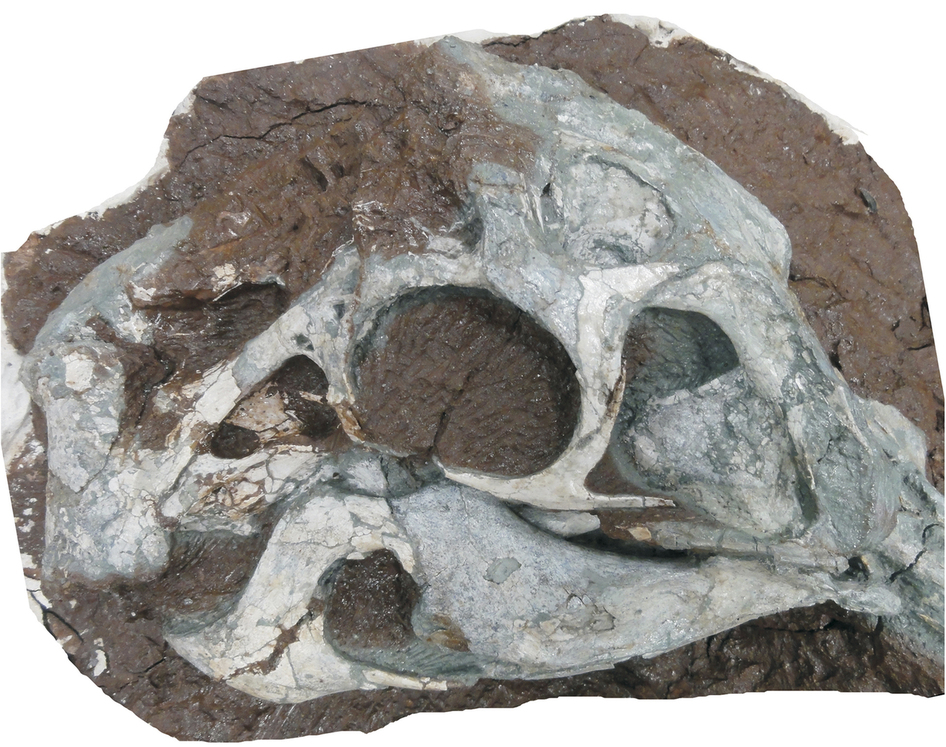 Skull of Huanansaurus ganzhouensis (HGM41HIII-0443).